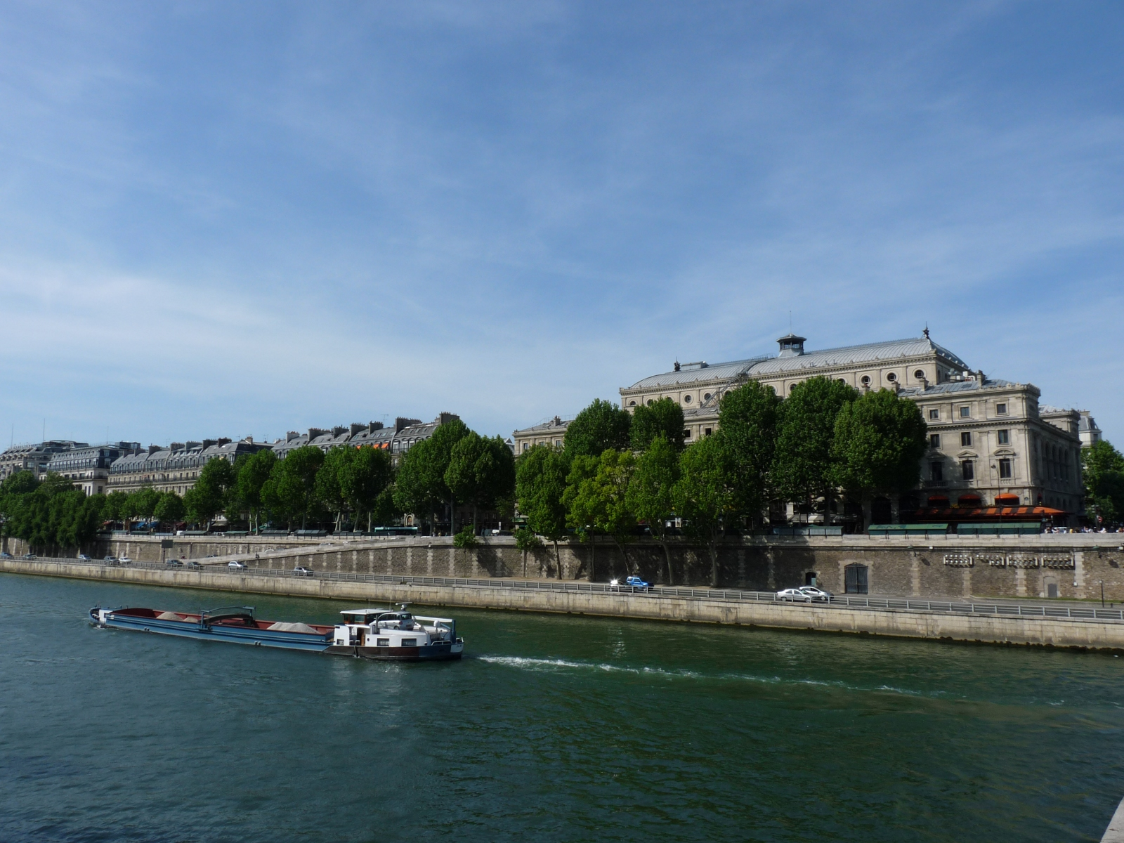 Quai de la Mégisserie in Paris, seen from the pont au Change